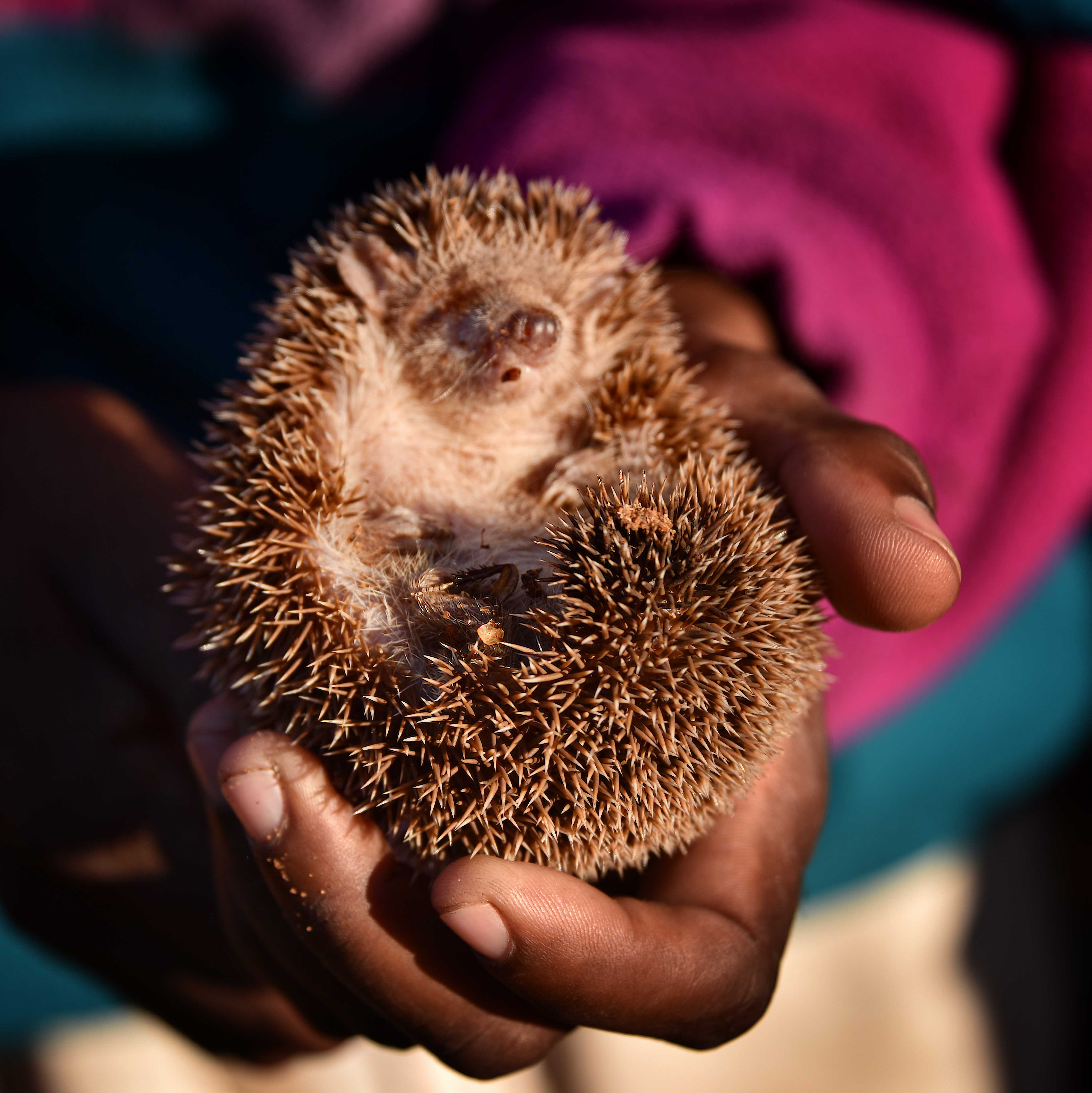 echinops telfairi